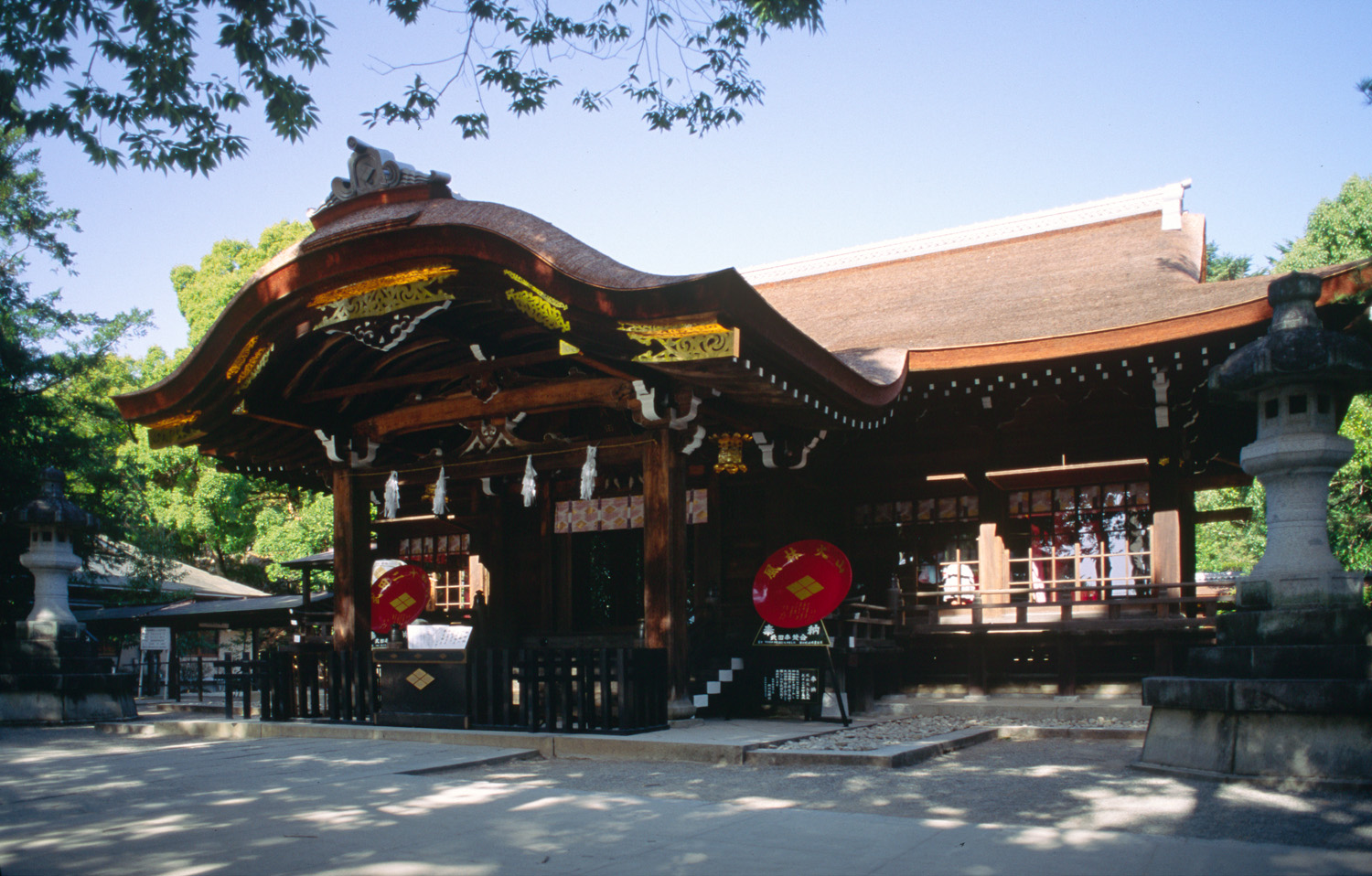 Takeda Shrine (Jinja) (武田神社) in Kofu, Yamanashi Prefecture, Japan. Takeda four-diamonds mon (crest). Karahafu (唐破風、からはふ) roof. I took the photo and contribute my rights in the file to the public domain; people and organizations retain rights to images in it.